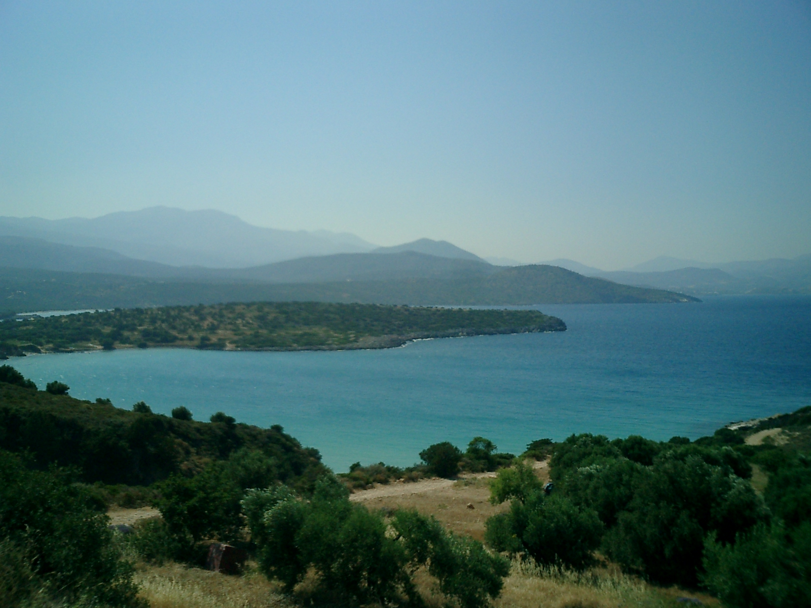 Crete, Greece